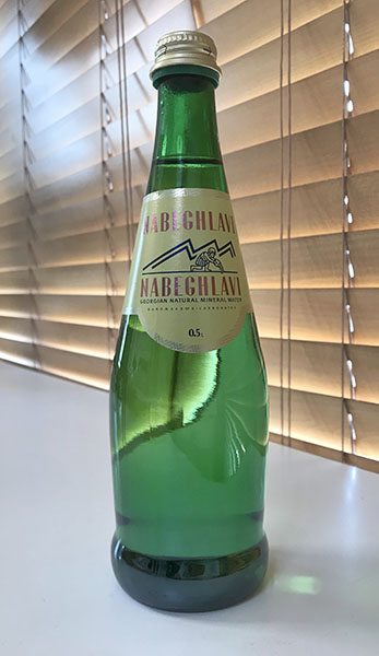 Bottle of Nabeghlavi